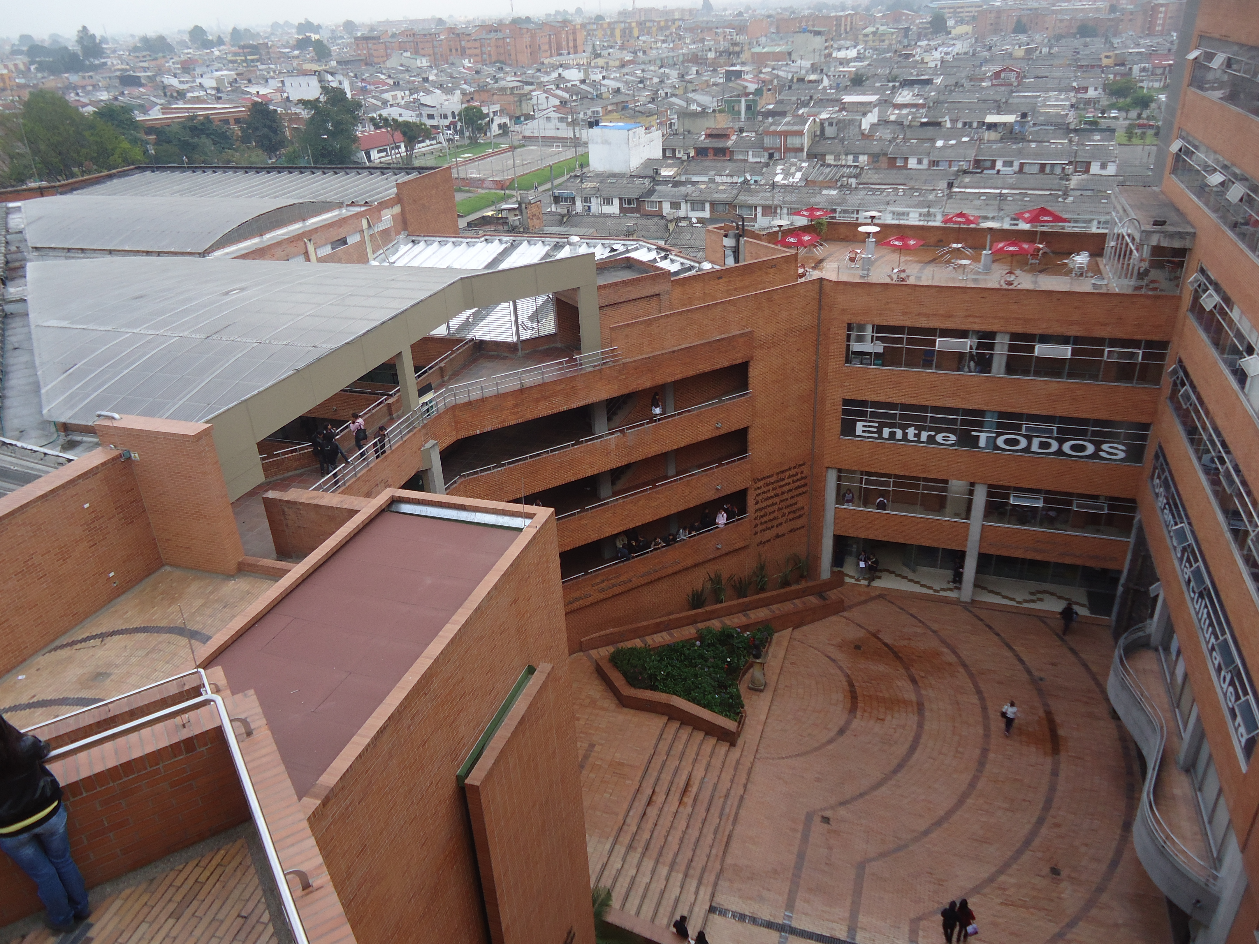 Sede Principal Universidad Minuto de Dios